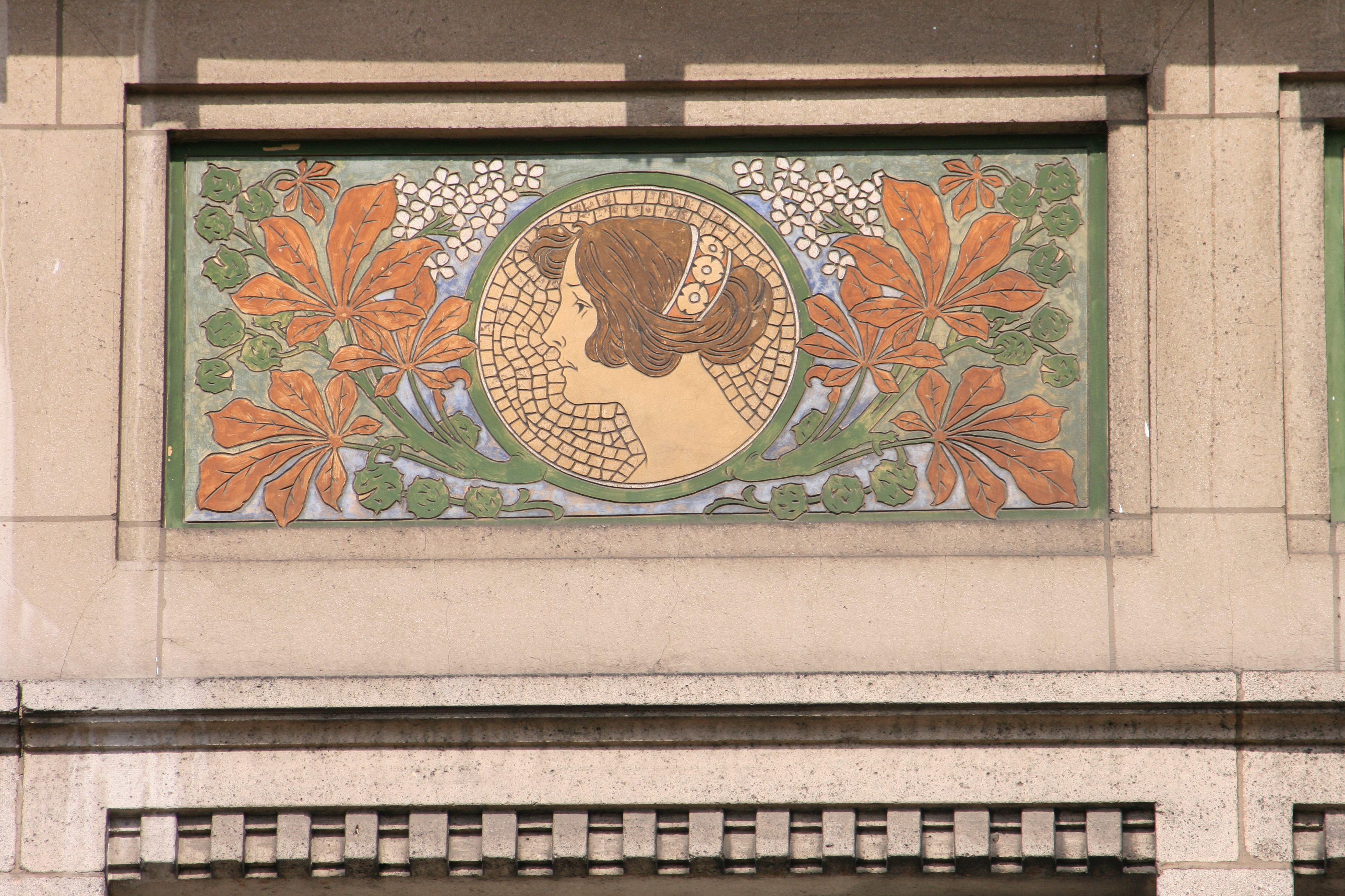 12, Square François Riga, Schaerbeek (Brussels), detail: sgraffito (probably) by Privat Livemont